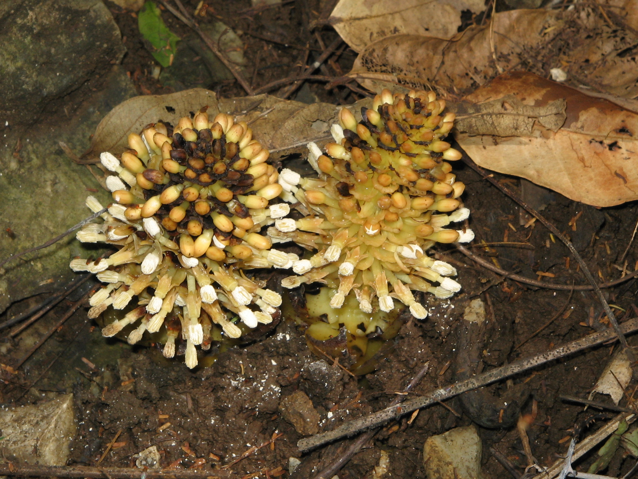 Balanophora indica (Syn. Balanophora fungosa subsp. indica). Found in Northwest Thailand (Hup Patad cave)